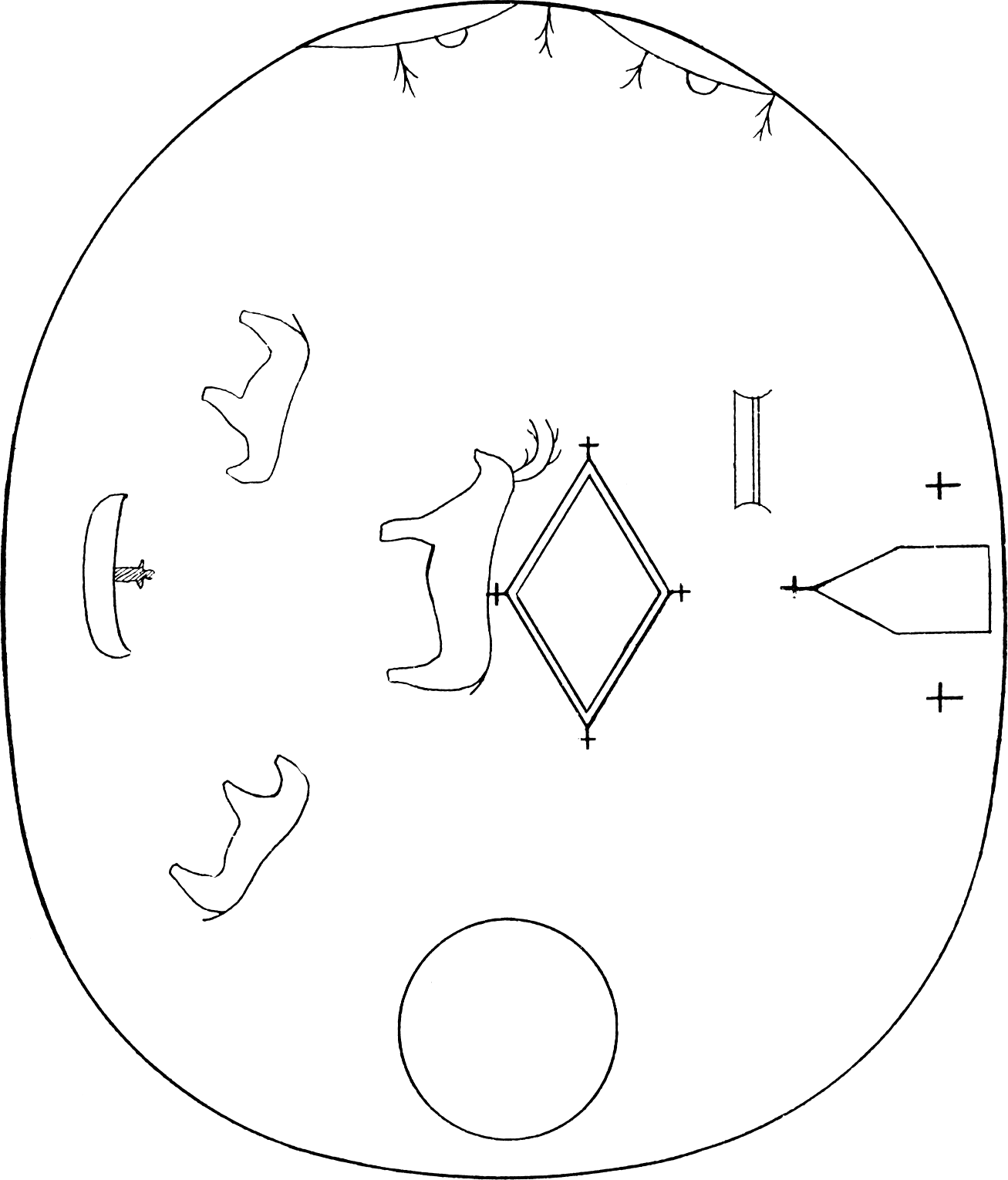 Sami drum from Vefsn/Bindal, Norway; Bindalstromma, as drawn by Lars Olsen for Just Qvigstad in 1885. Appears in Ernst Manker's Die lappische Zaubertrommel (1938). Now in Norsk Folkemuseum, Oslo